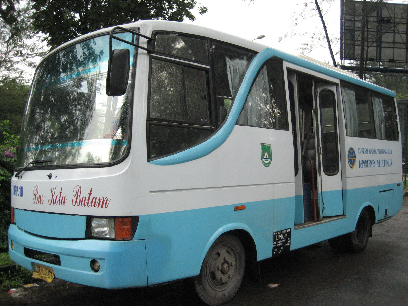 Public bus in Batam island, Indonesia